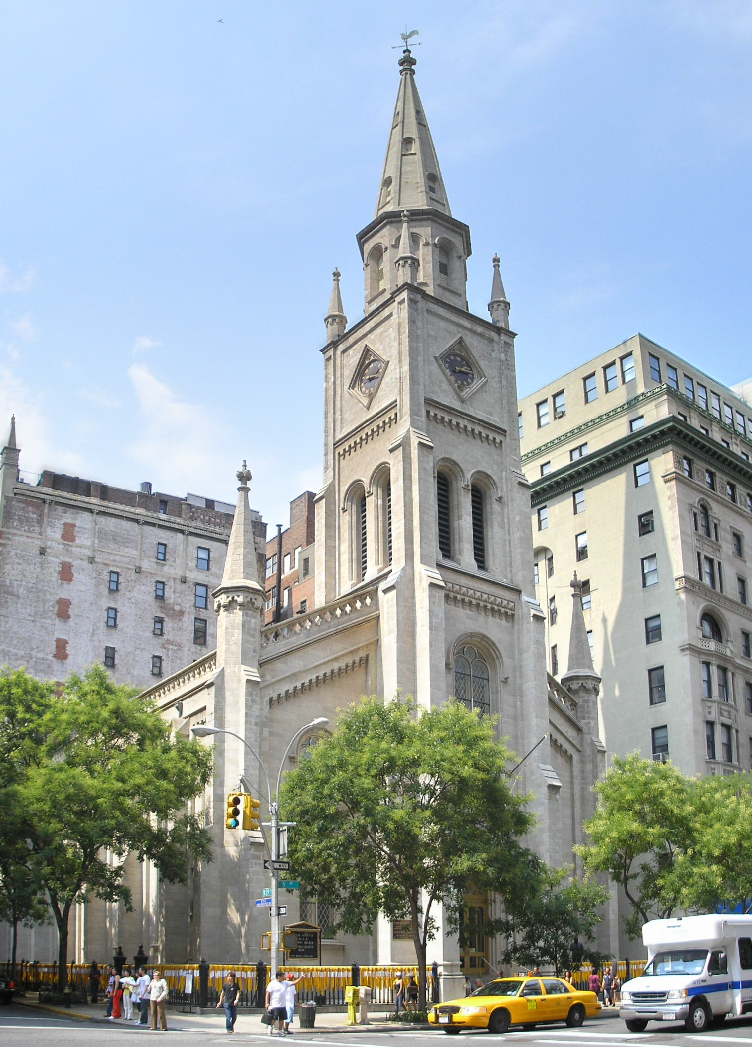 The Marble Collegiate Church on 5th Avenue and 29th Street in New York City.